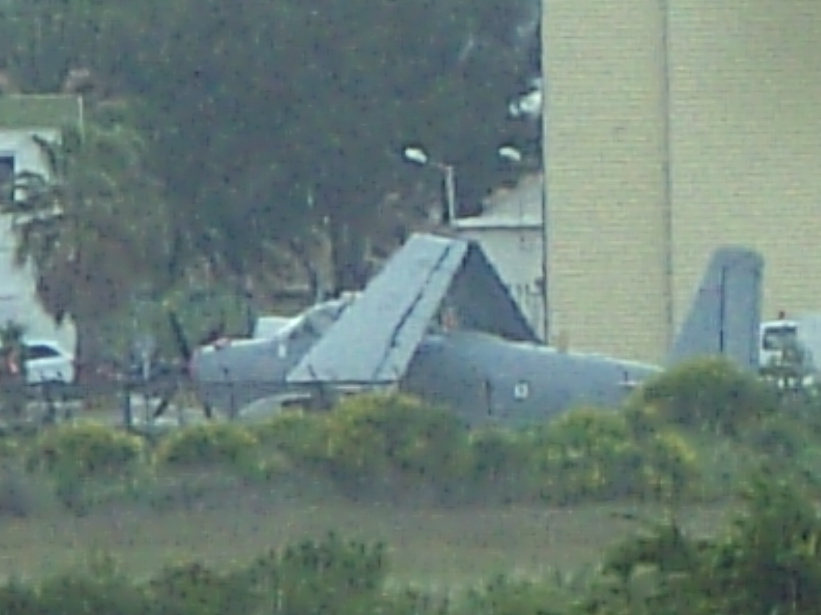 Breguet Alizè at Toulon-Hyères Airport's French Naval Aviation (Aéronavale) area, May 2012